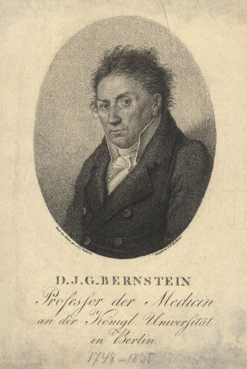 Johann Gottlob Bernstein (1747–1835) German physician